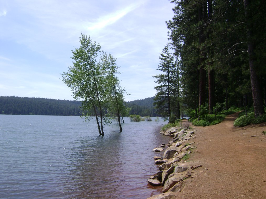 Sly Park, Pollock Pines, Calif.